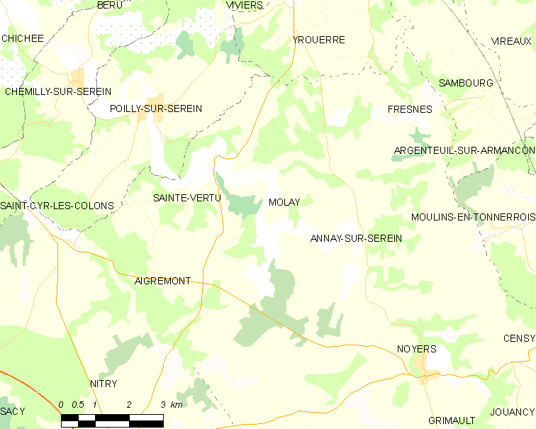 Map of French municipality Môlay